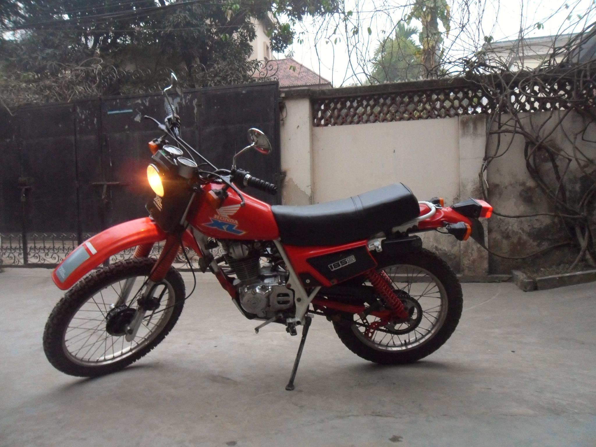 Honda XL185, 1985 Model, 185cc, 4-stroke single cylinder dual sports motorcycle.